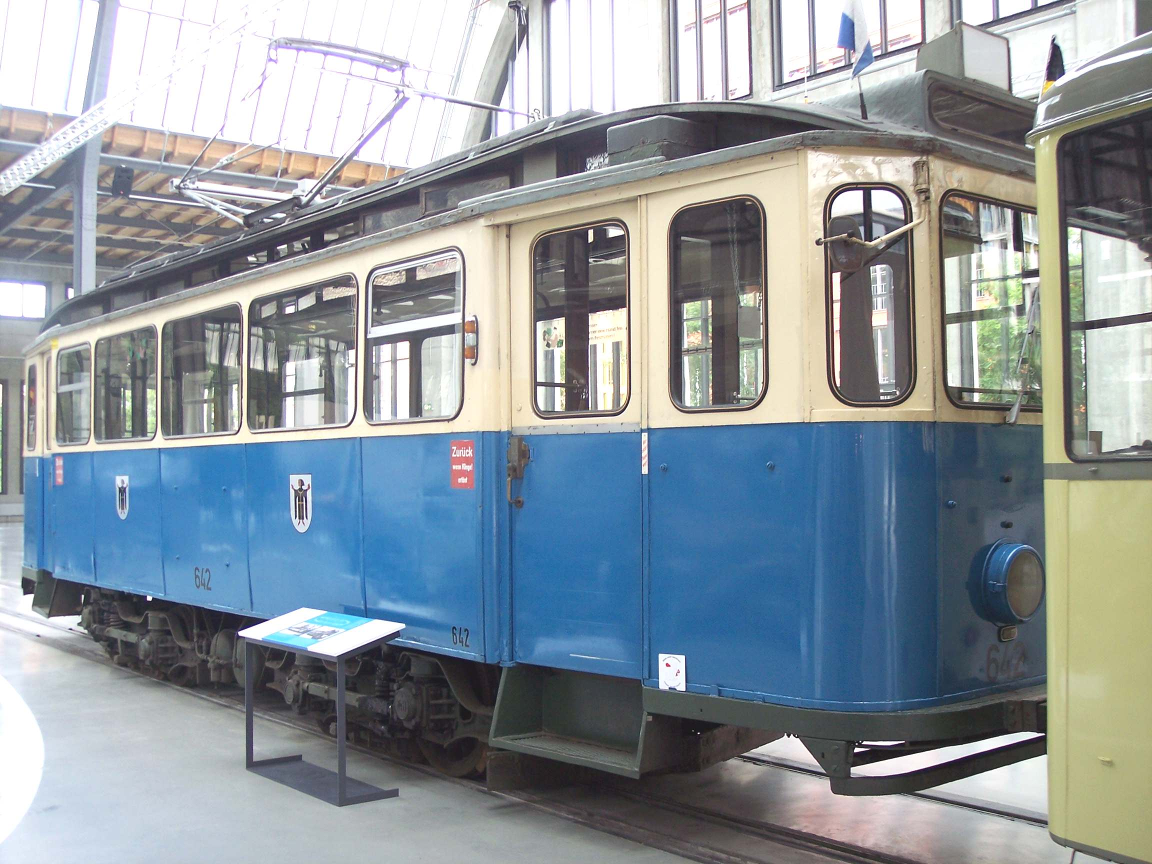 Munich tramcar series F, in use from 1930 to 1972